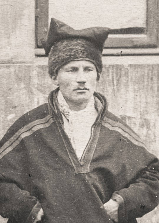 Samuel Johannesen Balto - unknown date (maybe, between 1888 and 1889) and unknown author.